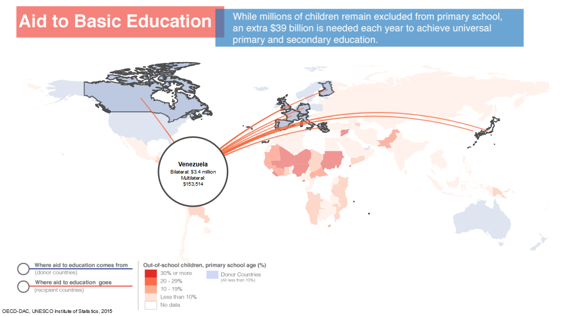 Aid to Basic Education. While millions of children remain excluded from primary school, an extra $39 billion is needed each year to achieve universal primary and secondary education.